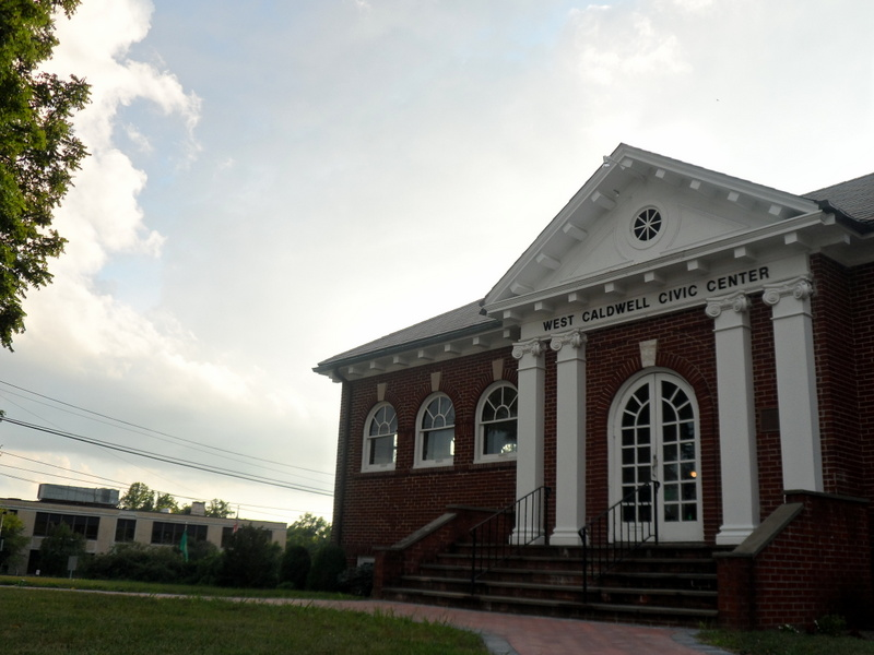 W Caldwell NJ